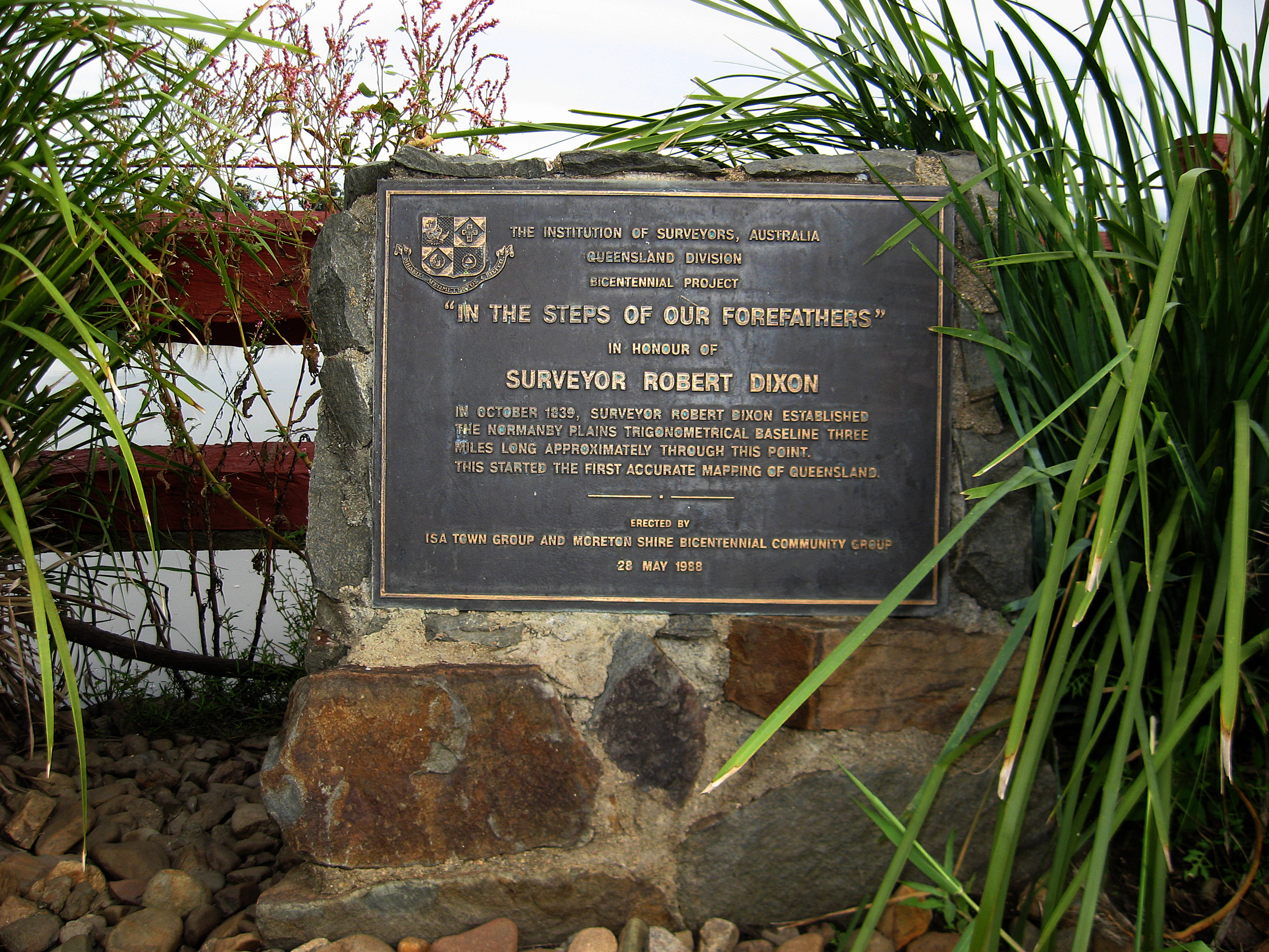 Memorial cairn for the surveyor Robert Dixon and the Normanby Plains trigonometrical baseline of 3 miles he supervised in 1839 which formed part of the first accurate survey and map of the Moreton Bay region. The monument is located just west of the town of Harrisville, Queensland on Warrill View-Peak Crossing Rd, near to the where the baseline passed. Inscription THE INSTITUTION OF SURVEYORS, AUSTRALIA QUEENSLAND DIVISION BICENTENNIAL PROJECT "IN THE STEPS OF OUR FOREFATHERS" IN HONOUR OF SURVEYOR ROBERT DIXON IN OCTOBER 1839, SURVEYOR ROBERT DIXON ESTABLISHED THE NORMANBY PLAINS TRIGONOMETRICAL BASELINE THREE MILES LONG APPROXIMATELY THROUGH THIS POINT. THIS STARTED THE FIRST ACCURATE MAPPING OF QUEENSLAND. It was erected in 1988 by the Isa Town Group and Moreton Shire Bicentennial Community Group. See also image:Moreton Bay, Survey Baseline, Robert Dixon, 1839 map.svg